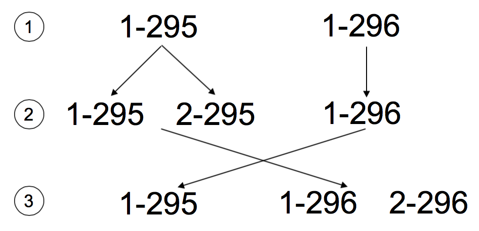 Diagram showing the split of the 1-295 into the 296th Infantry Regiment and viceversa.